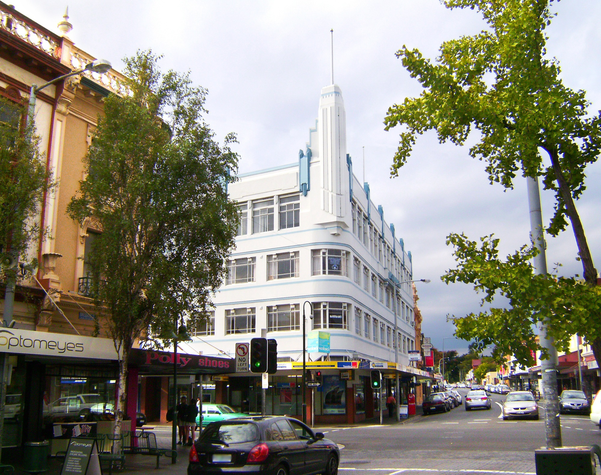 Holyman House viewed from the Brisbane Street Avenue, spring 2012